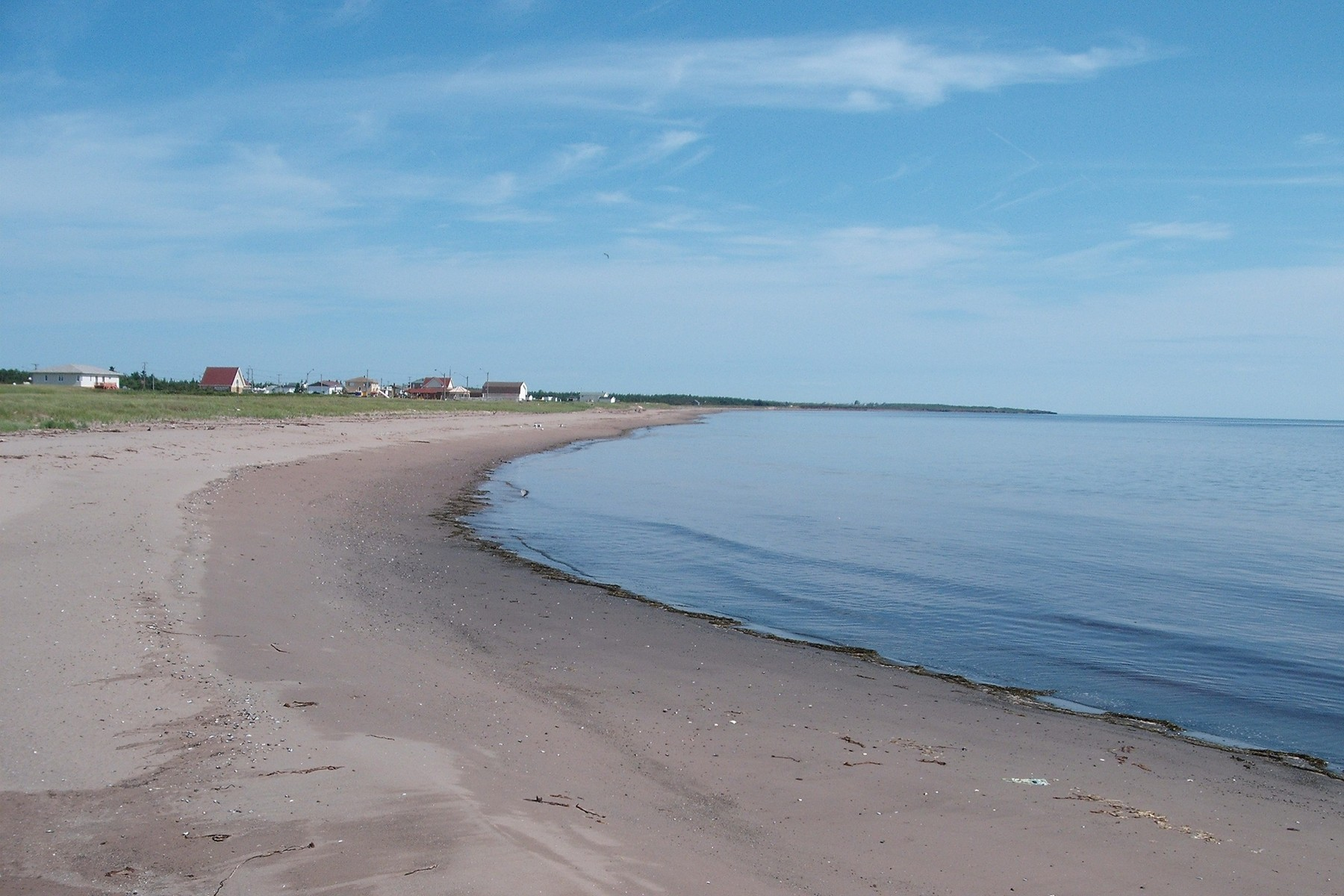 Waterfront at Sainte-Marie-Saint-Raphaël (NB)